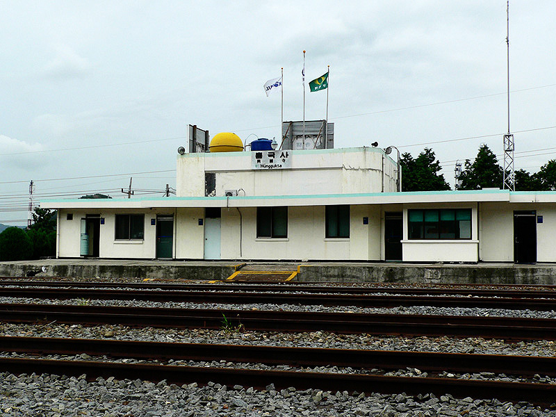 KORAIL Heungguksa Station